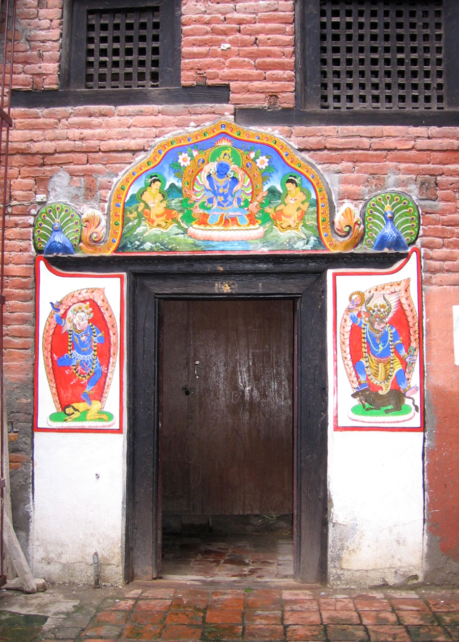 Doorway of shrine house at Taktse Baha, a Newar Buddhist courtyard in Kathmandu.